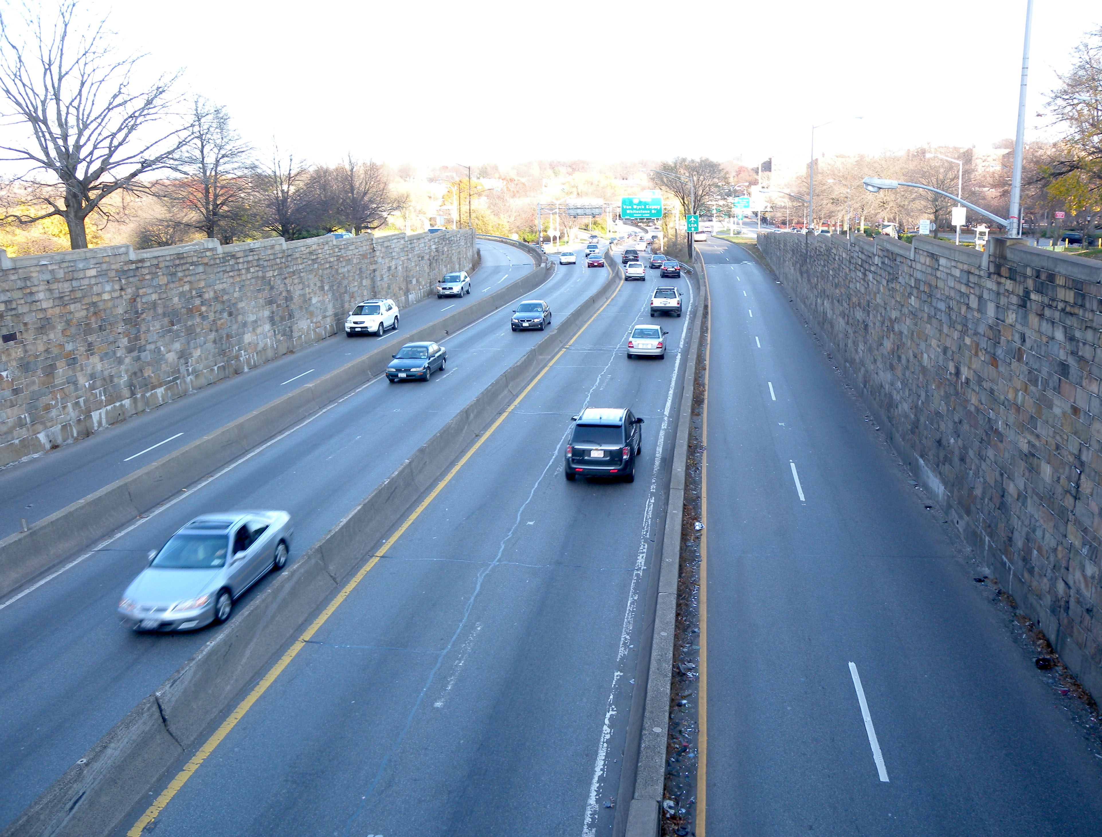 Looking east as Jackie Robinson Parkway exits from under Queens Boulevard towards Van Wyck and Grand Central on a sunny afternoon.